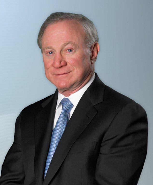 Larry A. Mizel: Philanthropist and CEO